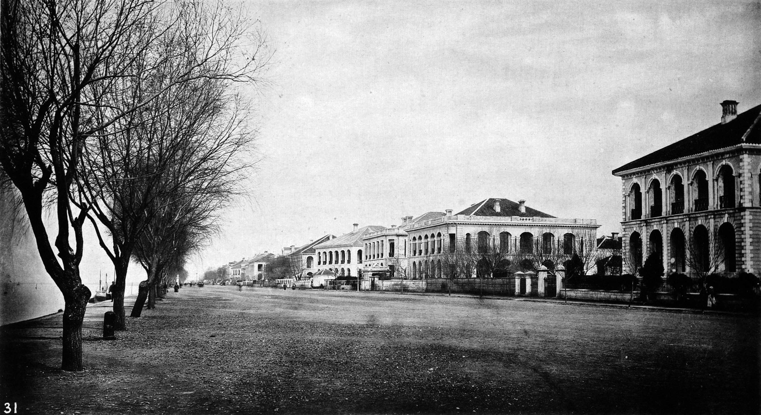 Photograph by John Thomson. See detail on the Wikisource link below.